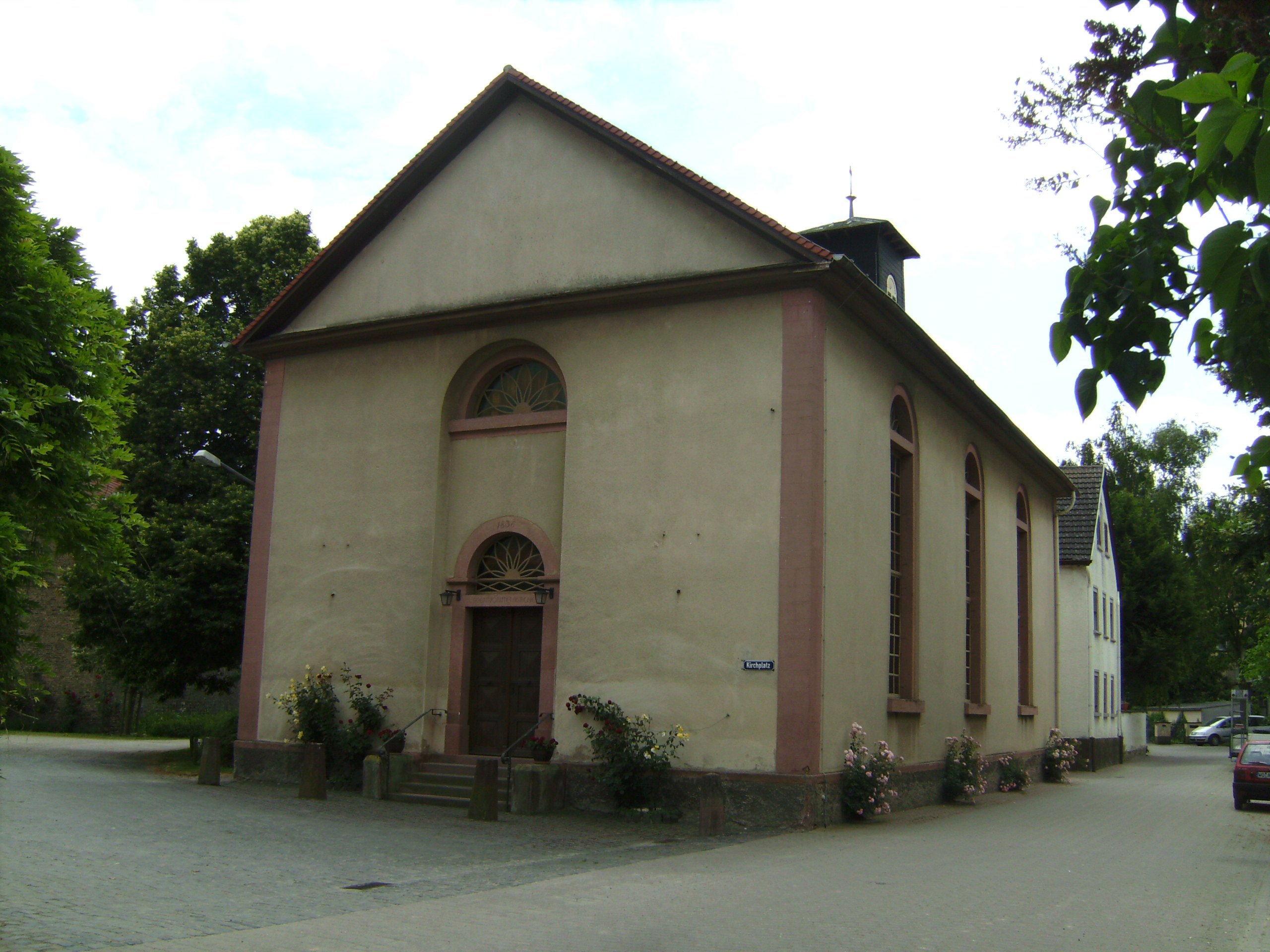 Mennonite Church of Worms-Ibersheim, Germany, from west